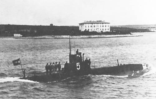 U-5 at the beginning of the war. In the background island Brioni.